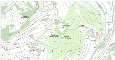 Localización de la Ermita de Sant Cristòfol